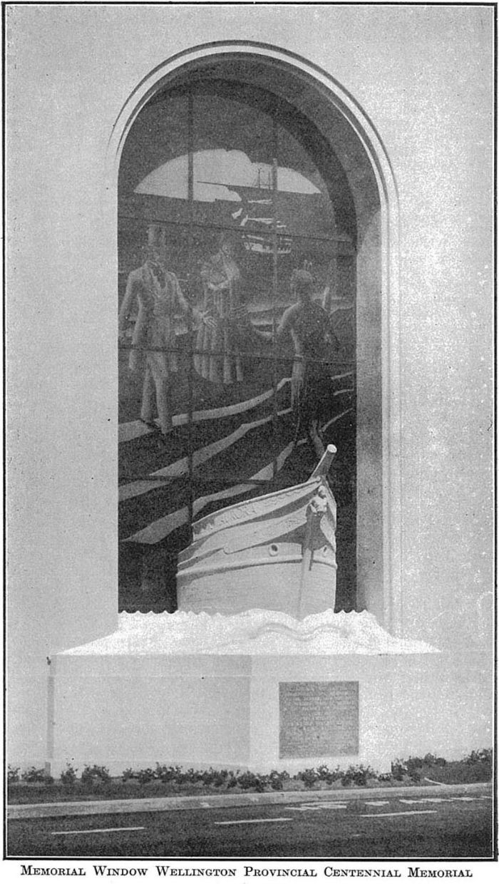 stain glass window depicting Te Puni extending his hand to a new settler